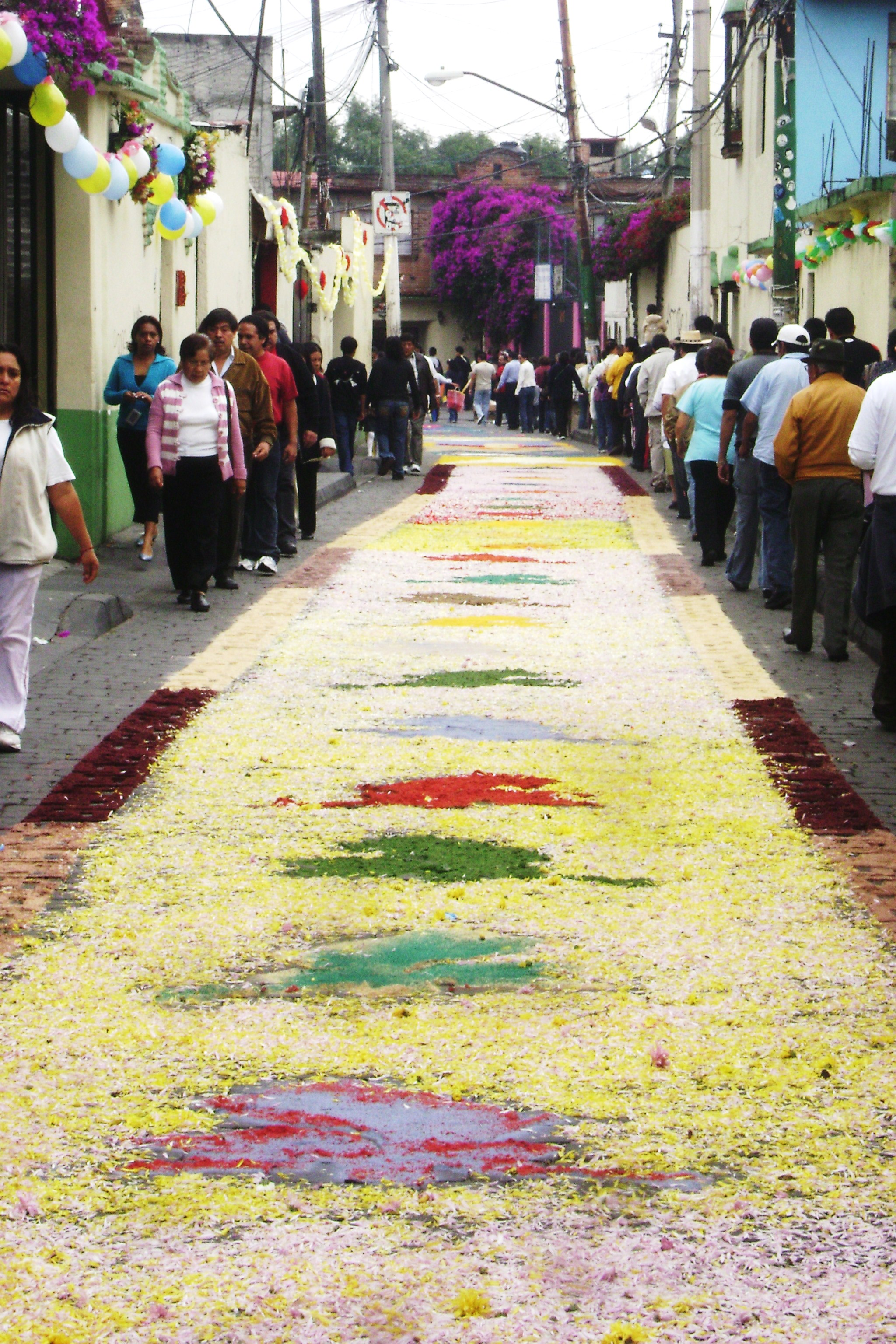 Ground covering of colored sawdust, for the fiesta of 2 February, by the residents of La Candelaria Coyoacán, DF, Mexico